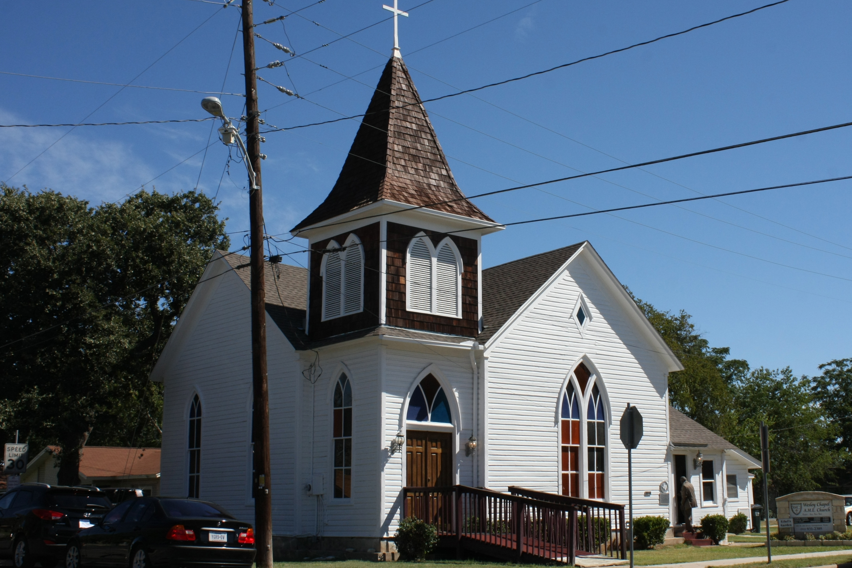 Wesley Chapel A.M.E Church in Georgetown, Texas, United States. The Carpenter Gothic style church was built in 1904. The building was designated a Recorded Texas Historic Landmark in 1984 and listed on the National Register of Historic Places on January 14, 1986